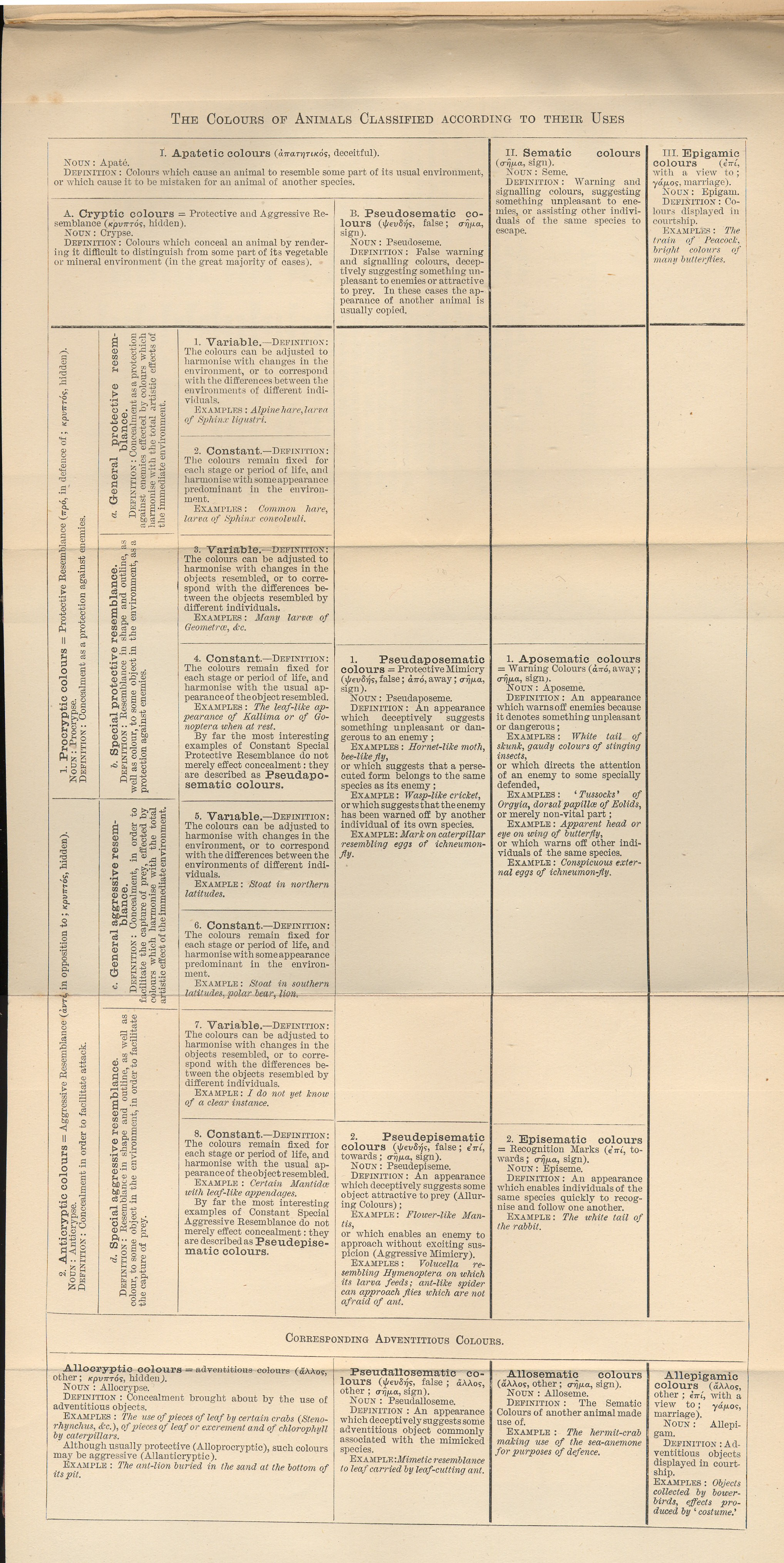 Fold-out table in which Edward Bagnall Poulton classifies the various functions of animal coloration, with Greek-derived terms including aposematism which he introduced here in his 'The Colours of Animals', 1890.